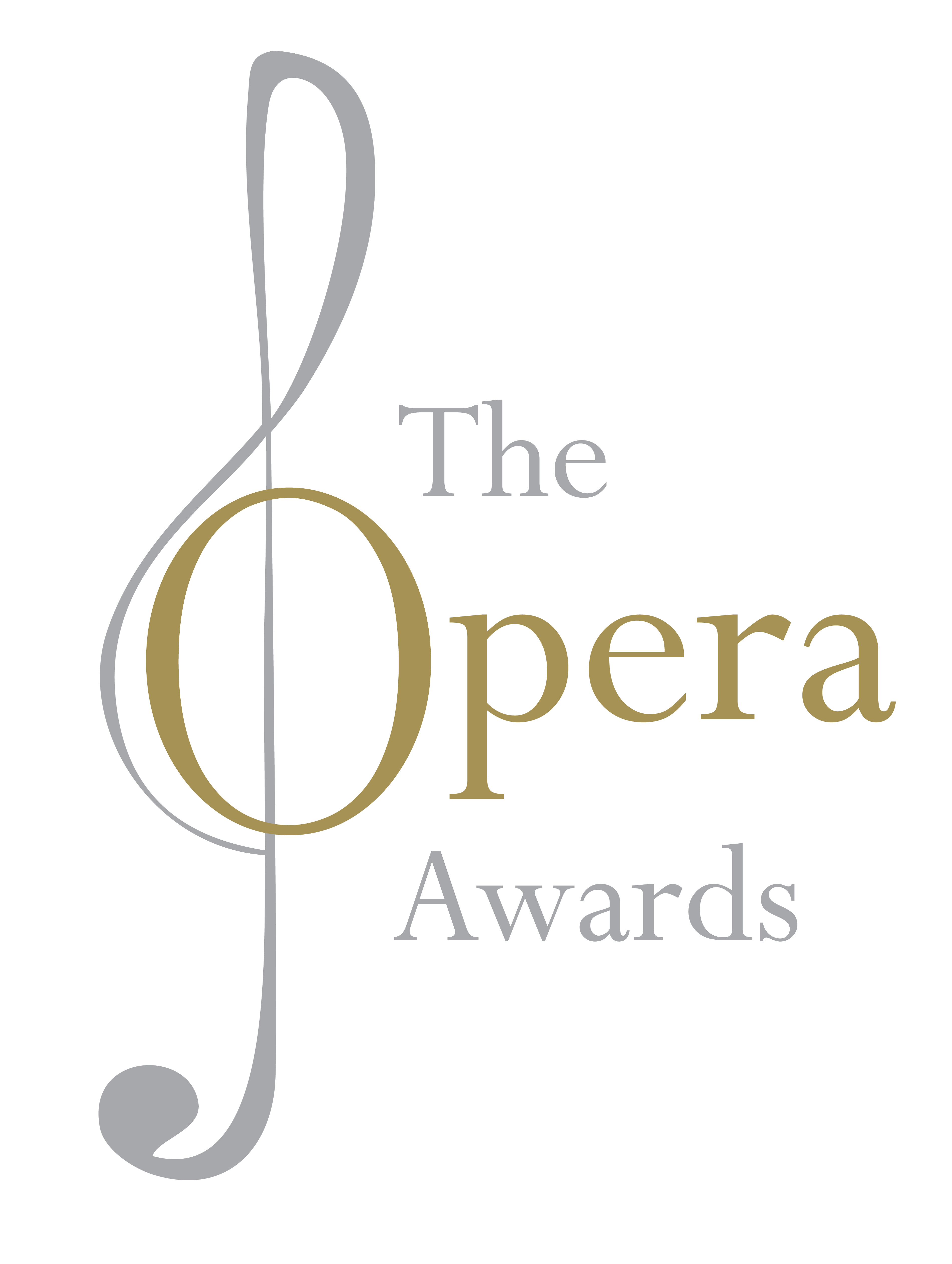 Logo of the International Opera Awards